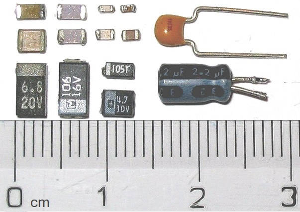 Description: SMD capacitors Author, date of creation: selfmade by Shaddack, 6 November 2005 Source: self-made Copyright: Public Domain (PD) Comments: SMD capacitors ceramic and electrolytic (the black plastic ones), with classic types for comparison